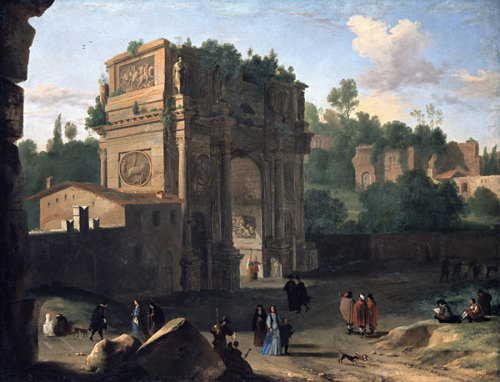 The Arch of Constantine, Rome (1645)